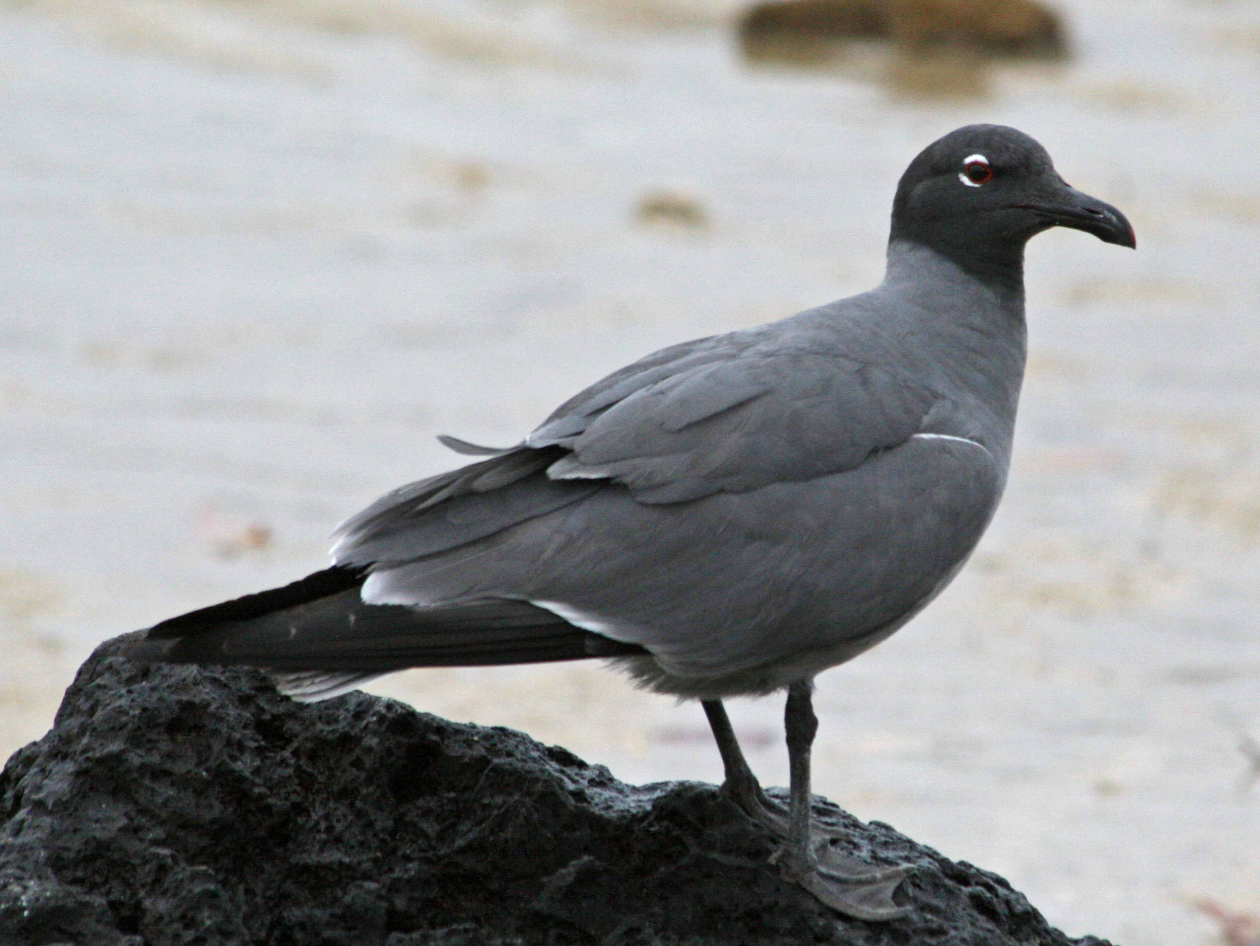 Lava Gull (Leucophaeus fuliginosus) on Santa Cruz Island in the Galapagos. This gull did not have a scarlet colored mouth. Perhaps this is because of the time of year or the age of the bird.